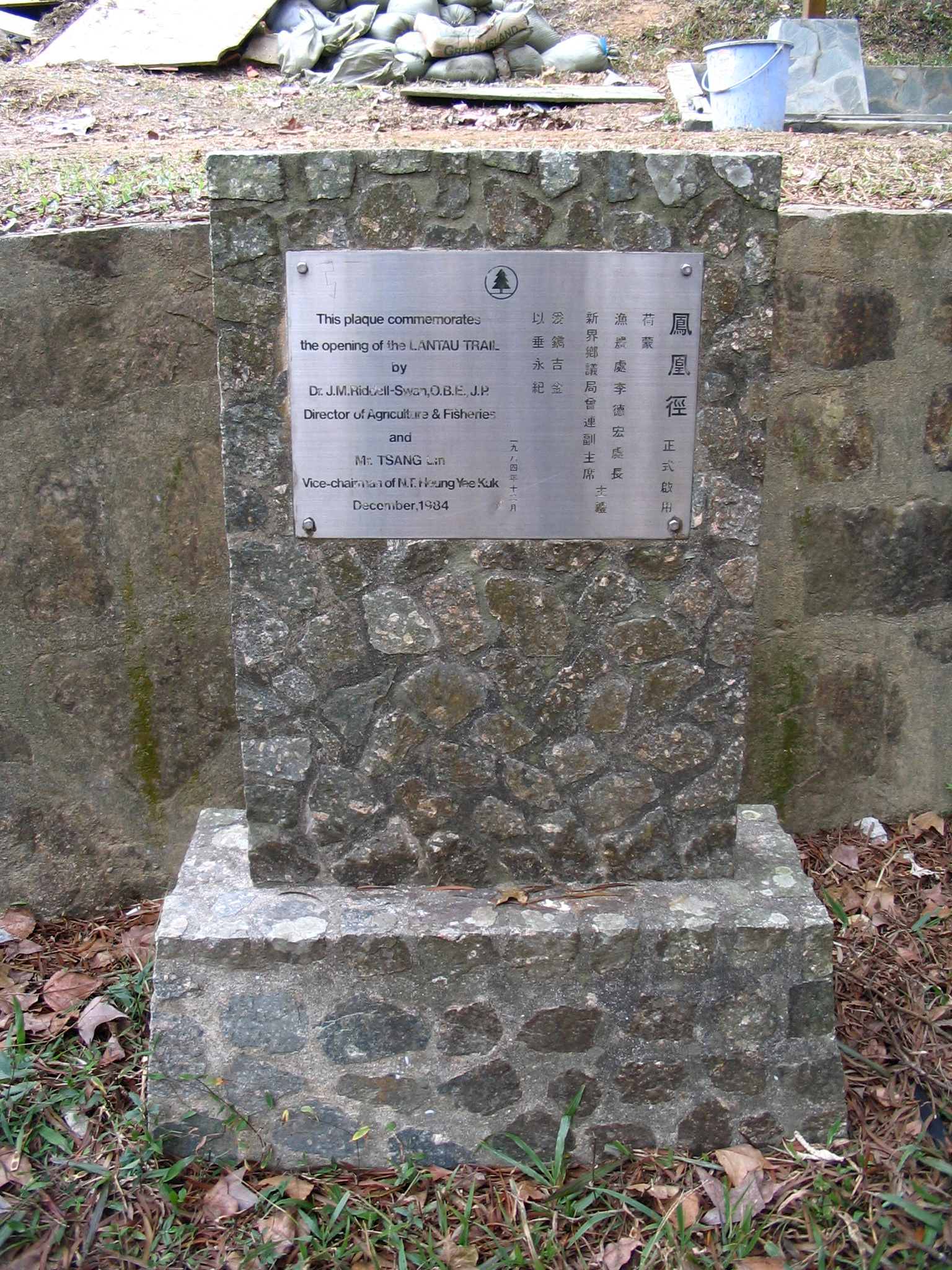 Photo of Lantau Trail